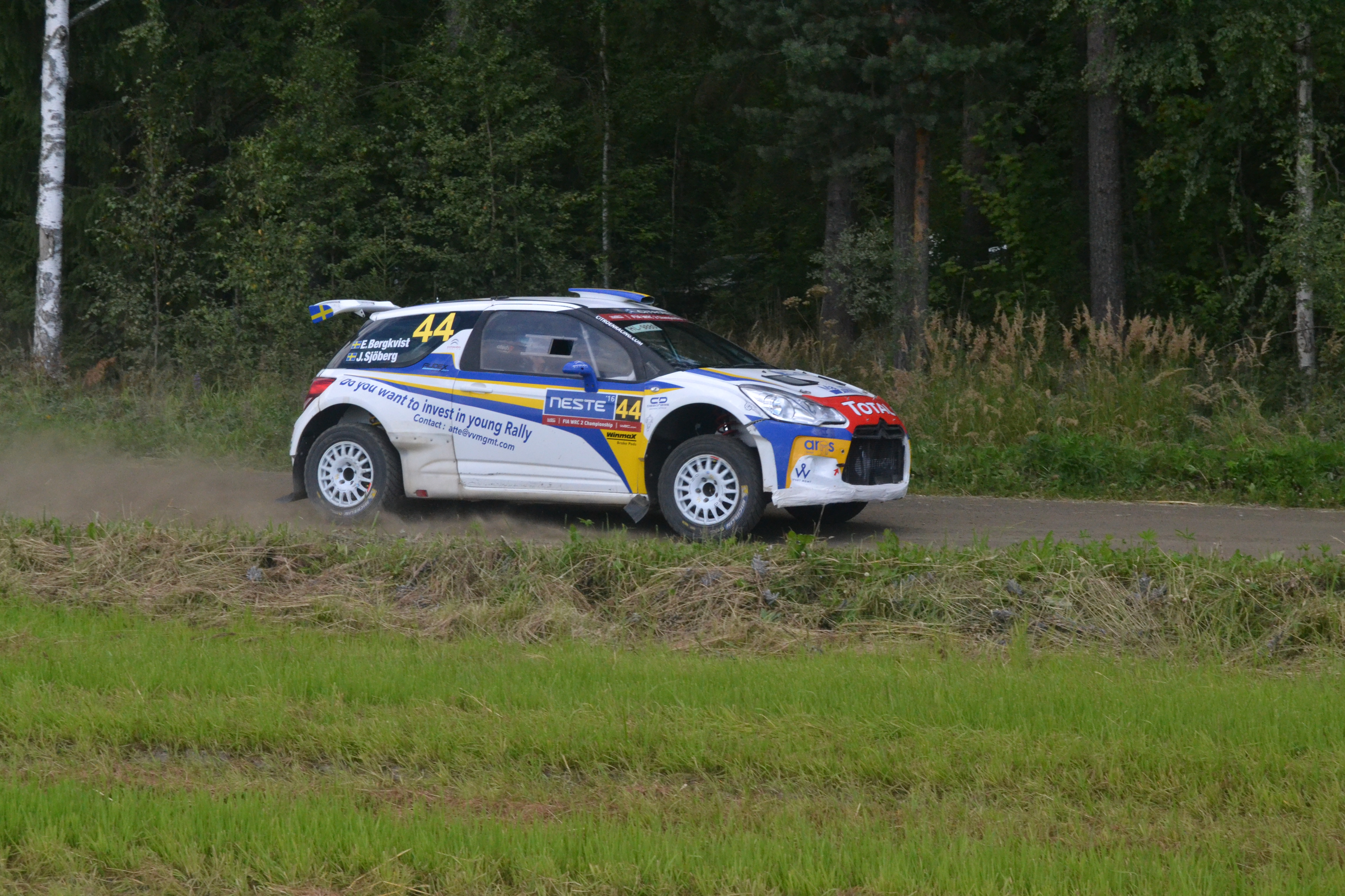 Emil Bergkvist at first Saalahti stage at Rally Finland 2016